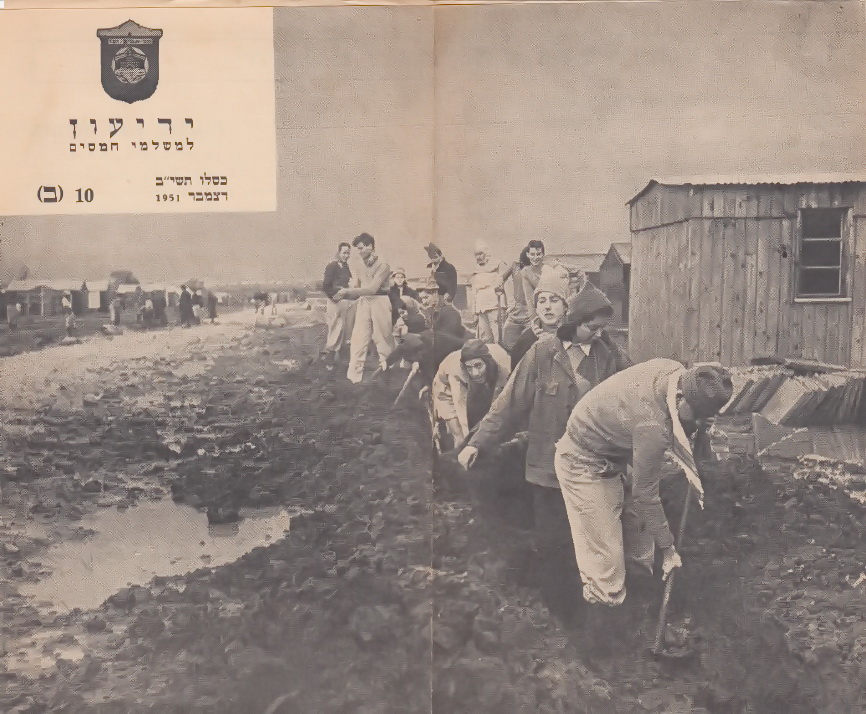 Inhabitants of a Maabara dig drainage around their shacks during the stormy days of the Winter of 1951.